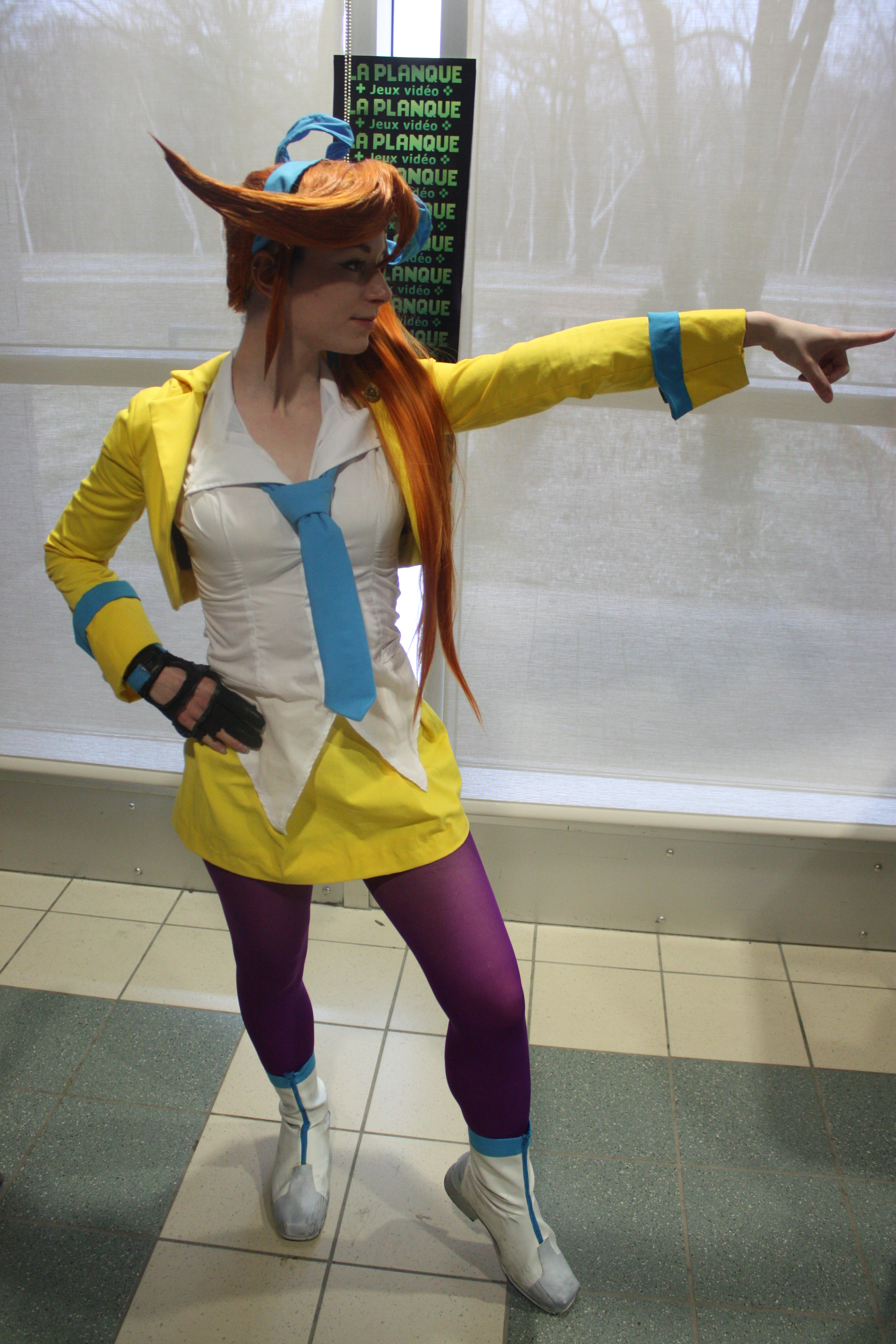 Nadeshicon 2015: Athena Cykes